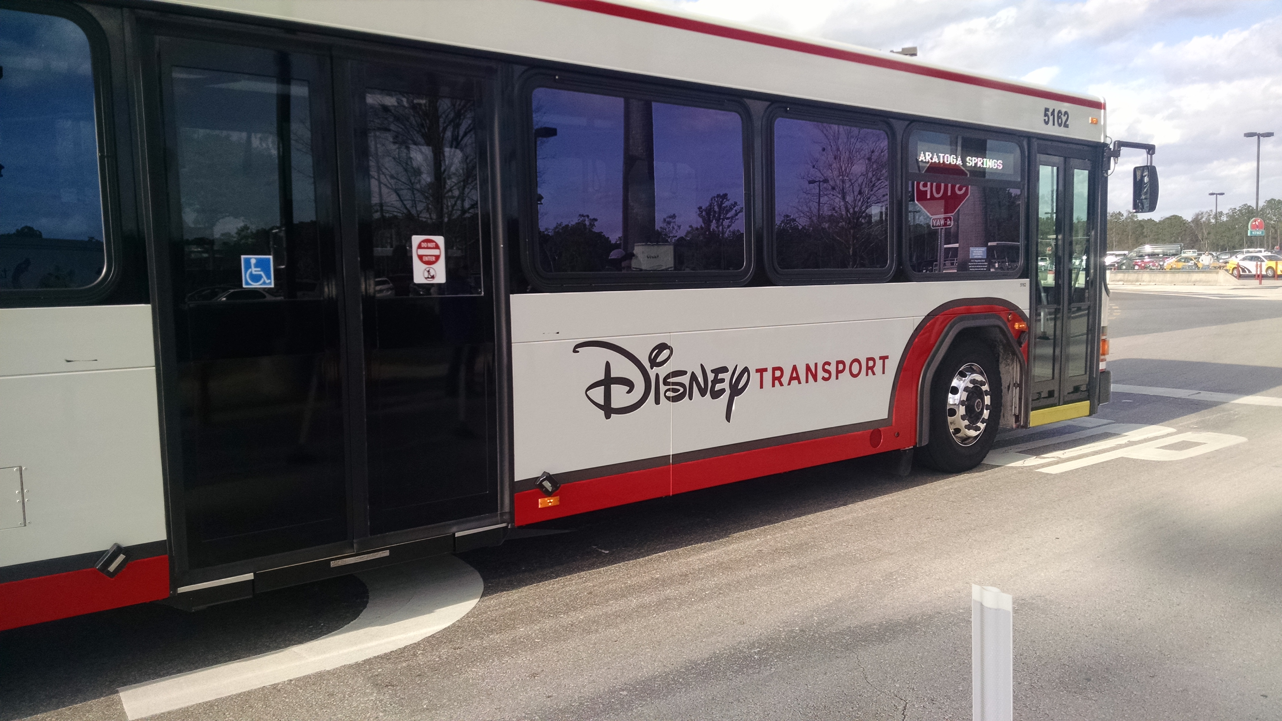 Disney Transport Bus